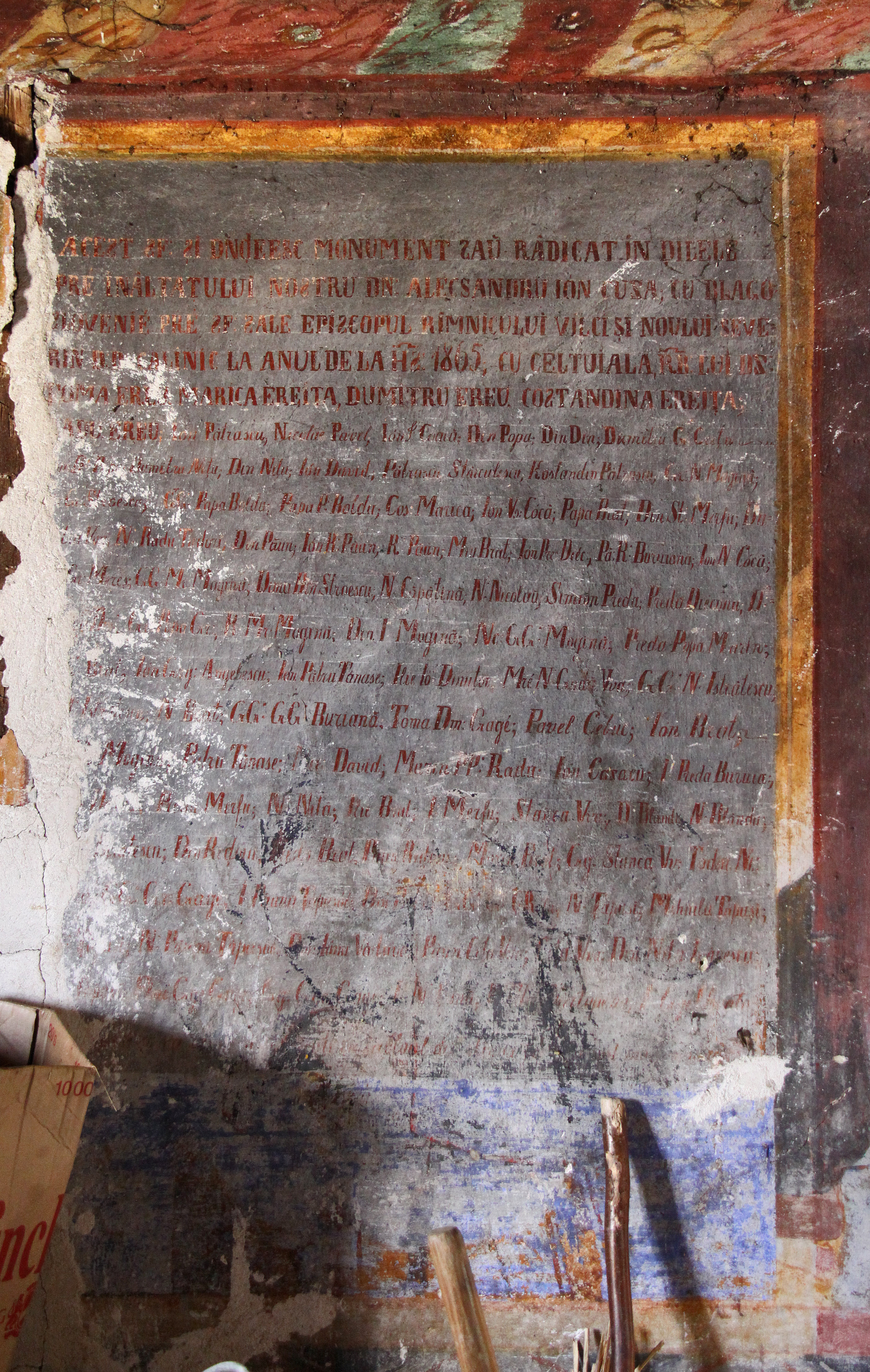 Pietrarii de Sus, Vâlcea, the wooden church. Inscription inside.